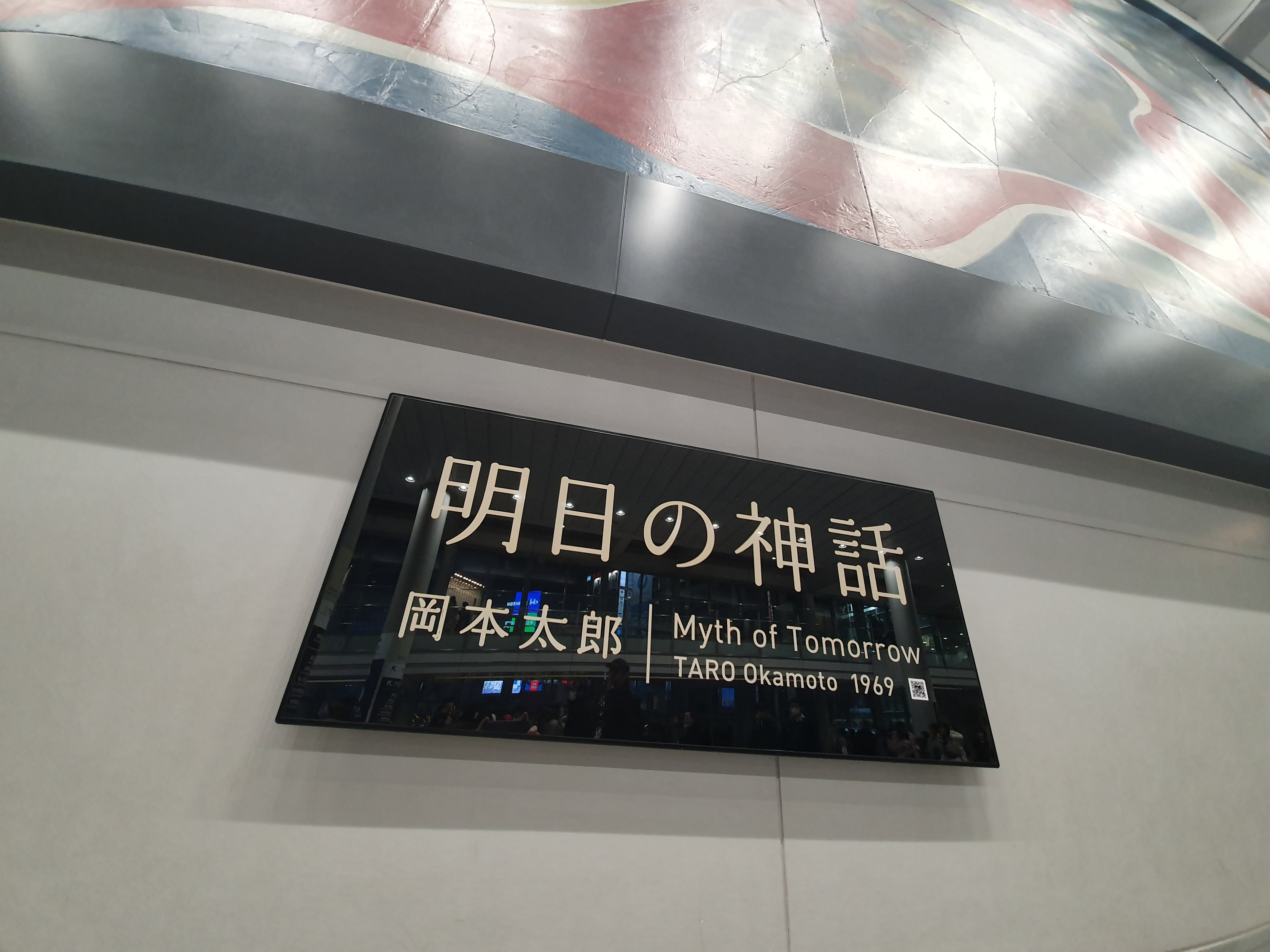 mural